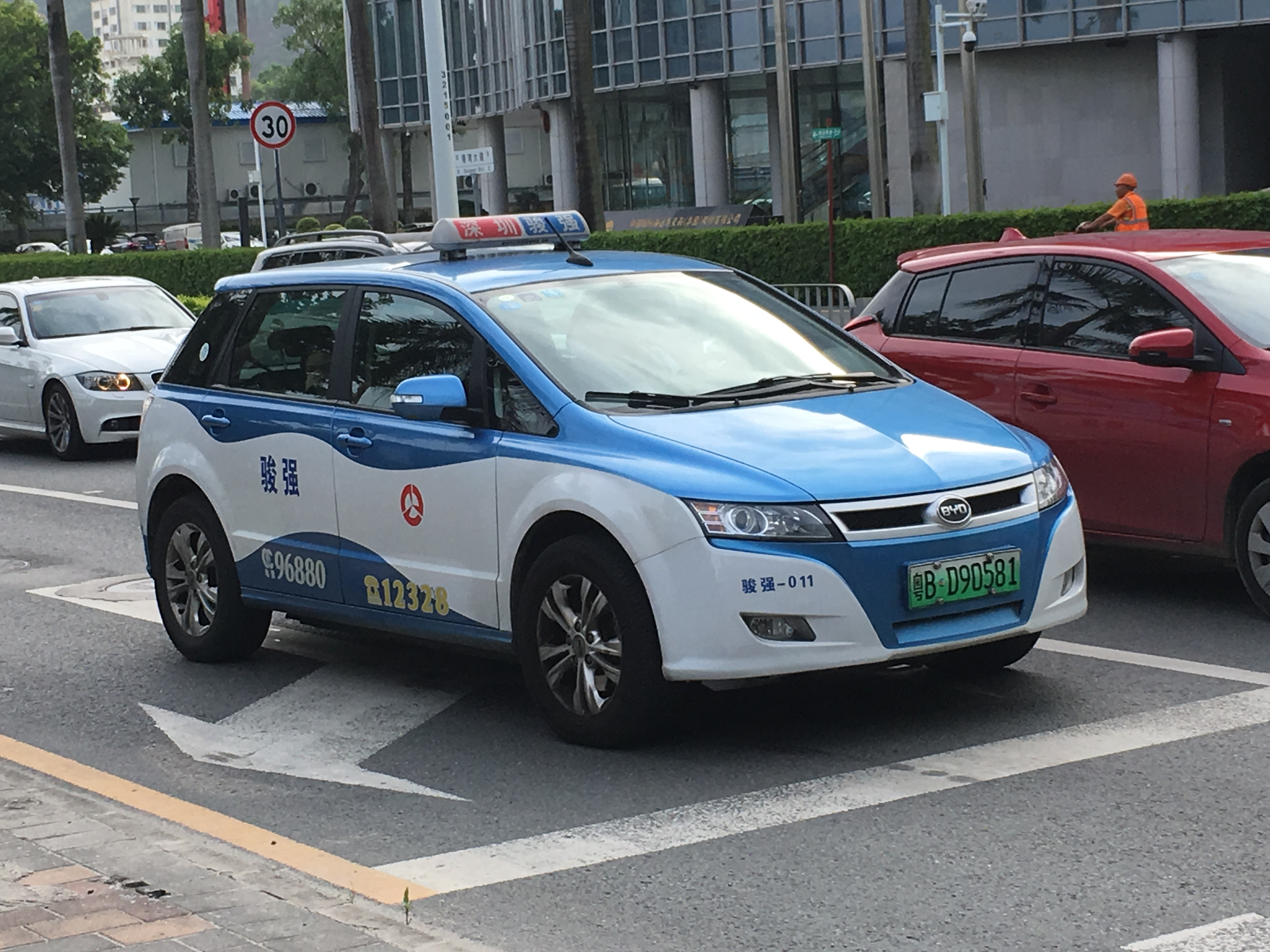 中文（香港）: This photo is taken in Shekou.